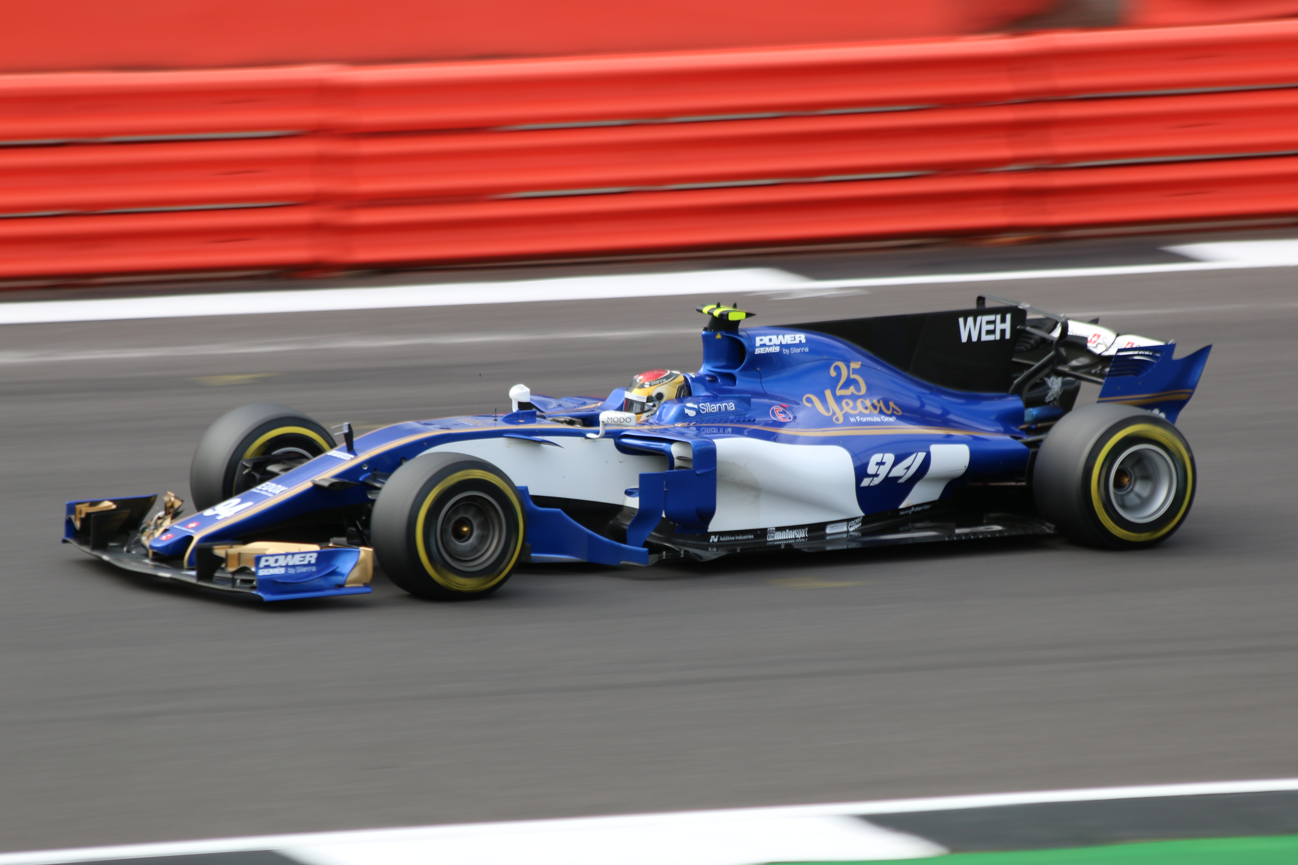 Wehrlein (Sauber F1 Team)